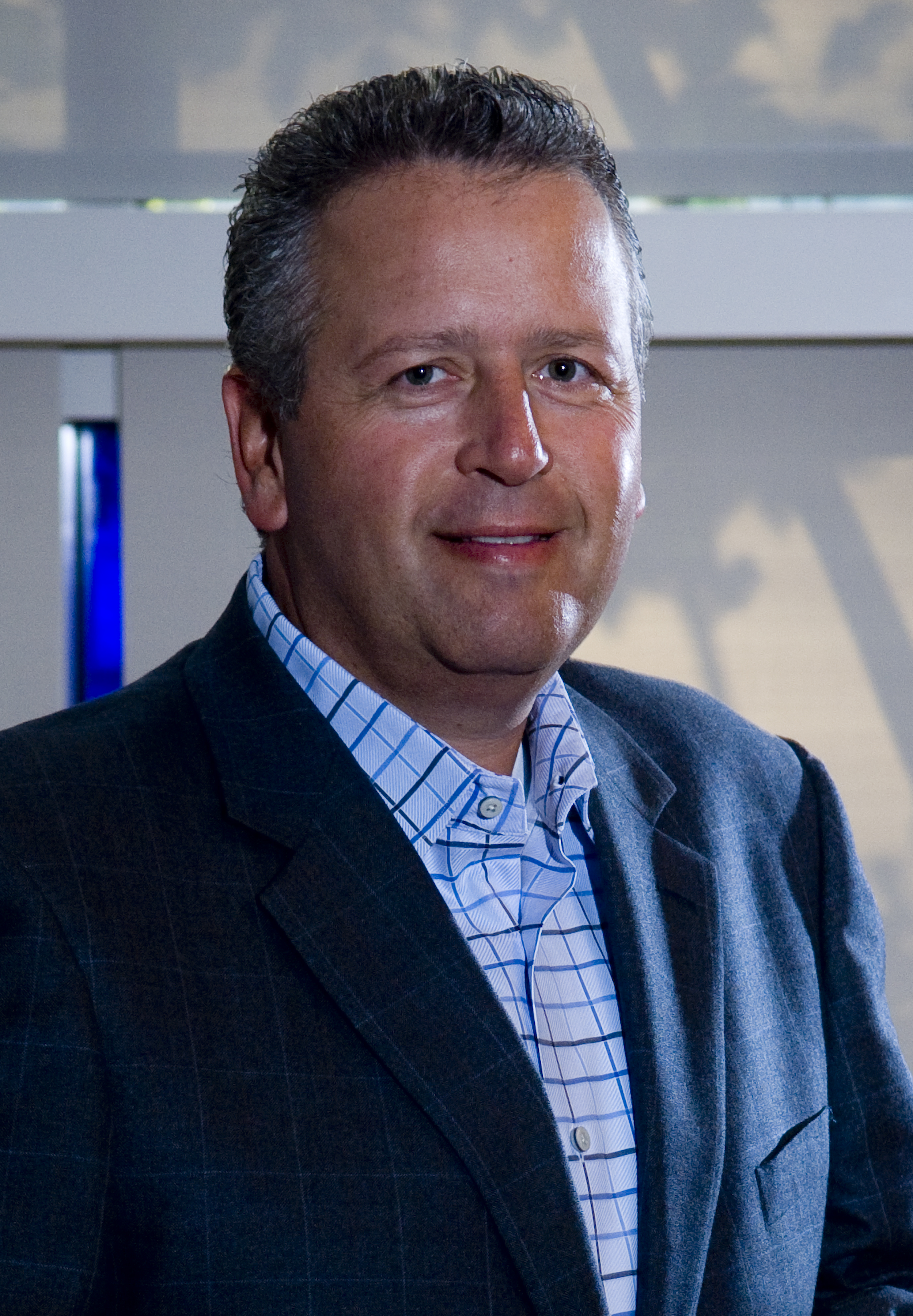 Photograph of chemist Joseph DeSimone, at Innovation Day, September 17, 2008, at the Chemical Heritage Foundation, Philadelphia, PA, USA.